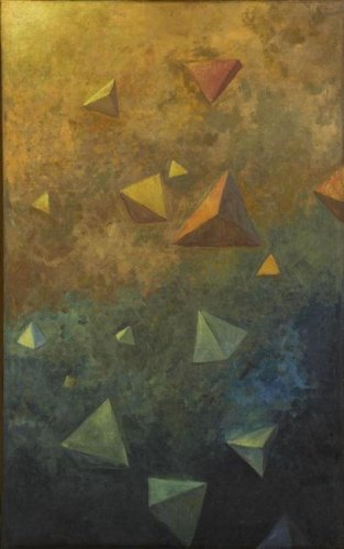 Tétraèdres [tetrahedra], painting by Paul Sérusier, circa 1910